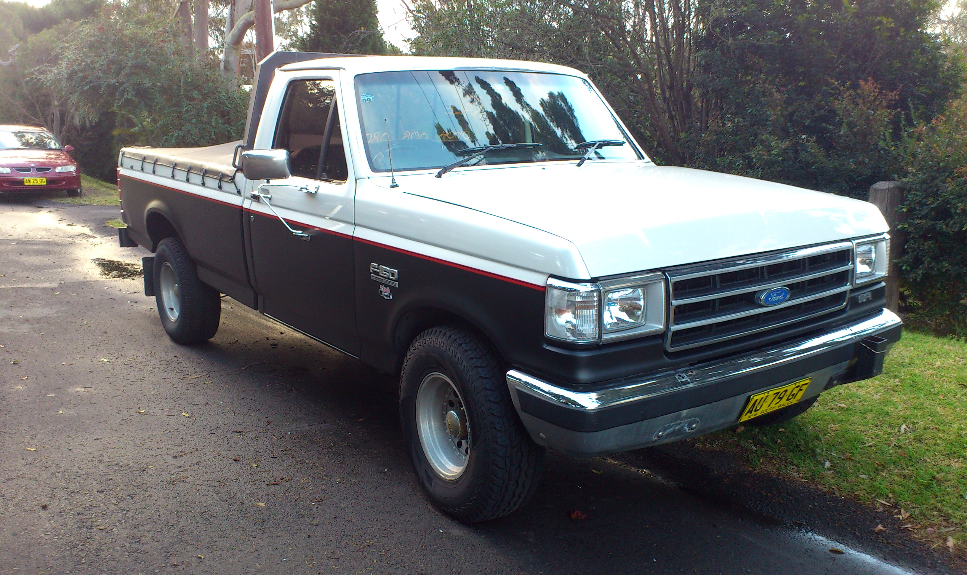 Ford F150 Custom